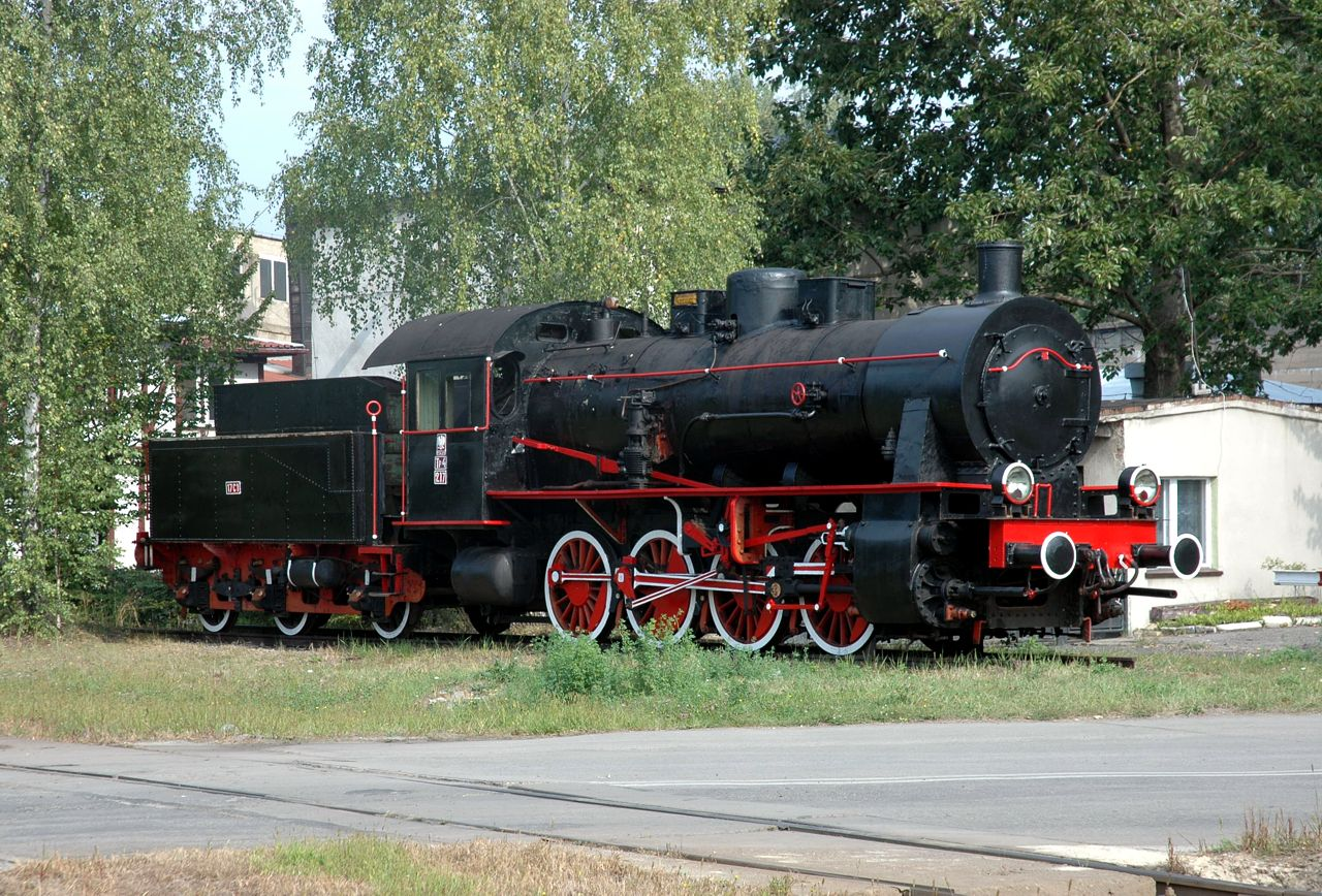 Steam engine Tp4-217, Pyskowice, Poland